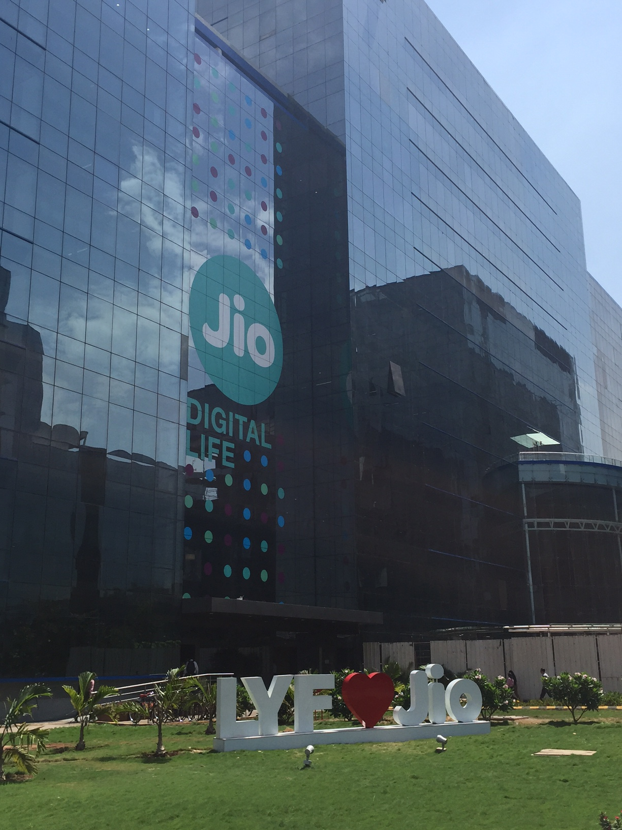 Jio building in RCP, Navi Mumbai